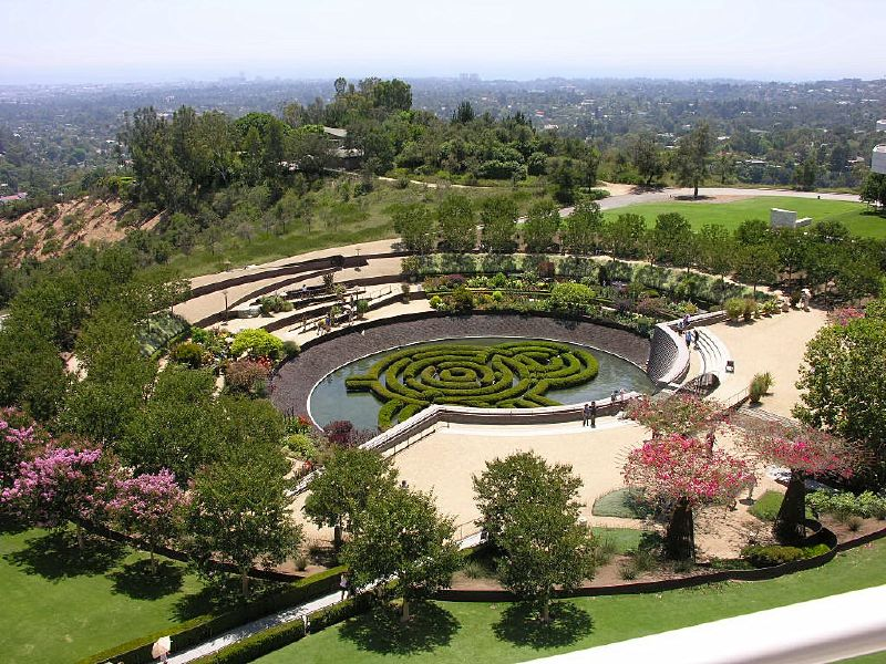 Central garden from west pavilion of Getty museum, Los Angeles.